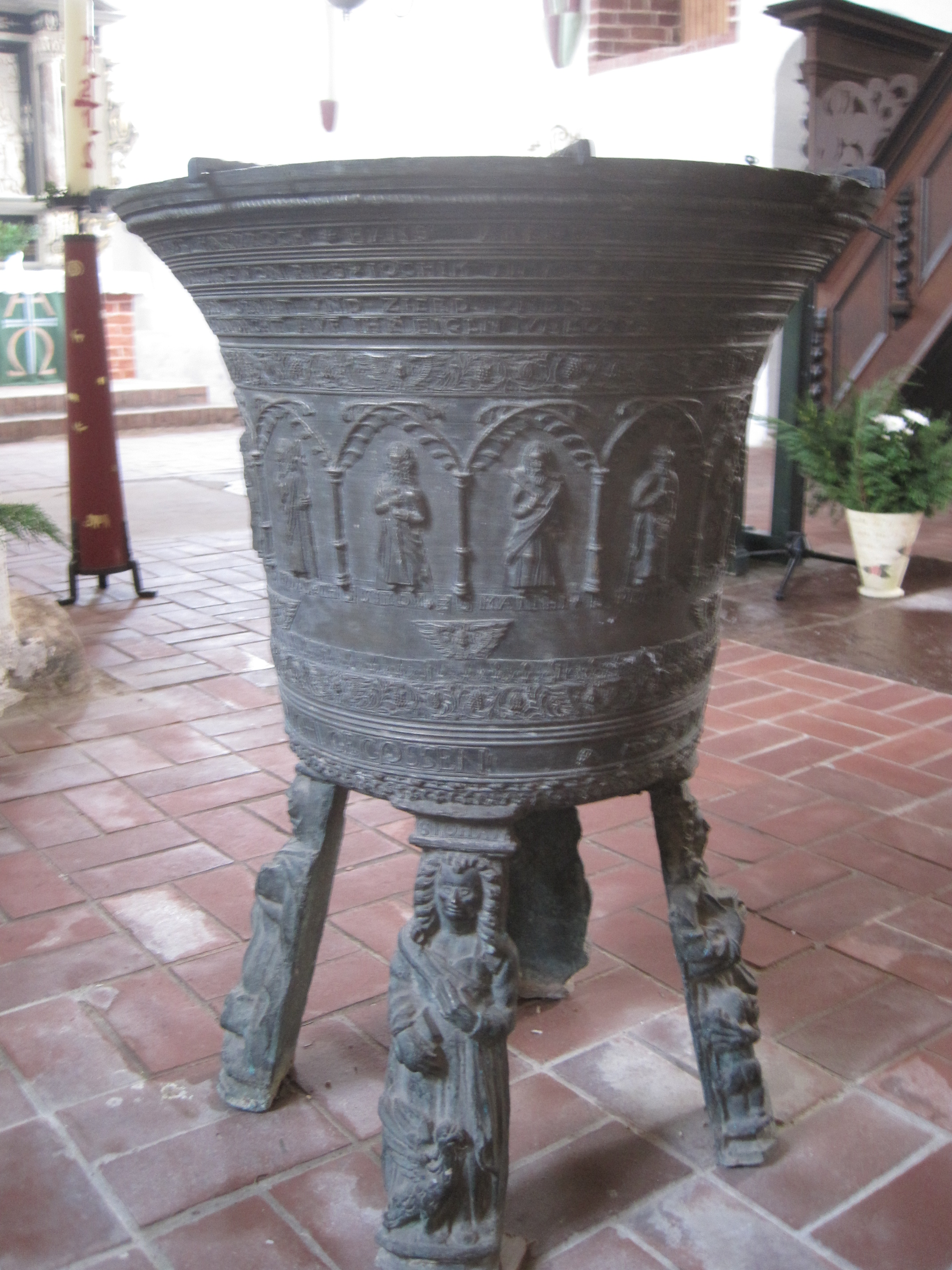 Baptismal font from 1652 in Schlagsdorf.